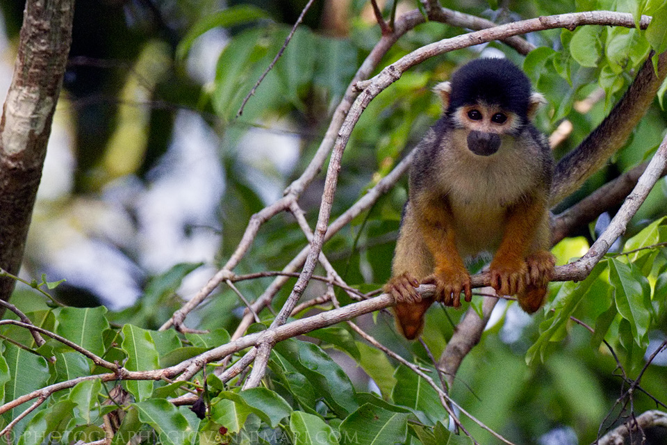 Black-headed squirrel monkey (Saimiri vanzolinii) in Mamiraua Reserva, Amazonas, Brazil.